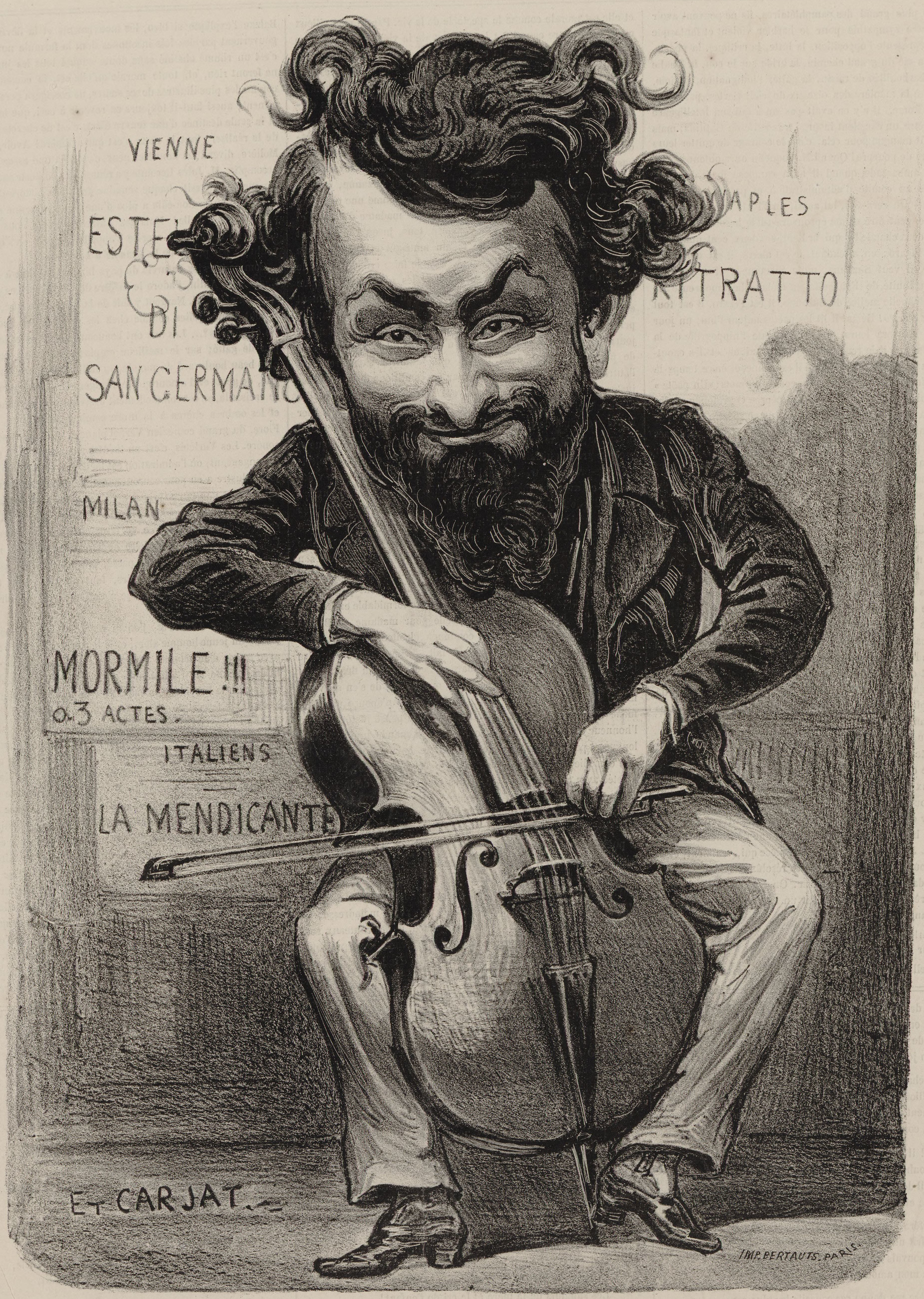 Italian composer and cellist Gaetano Braga (1829-1907). Caricature by Étienne Carjat (1828-1906).